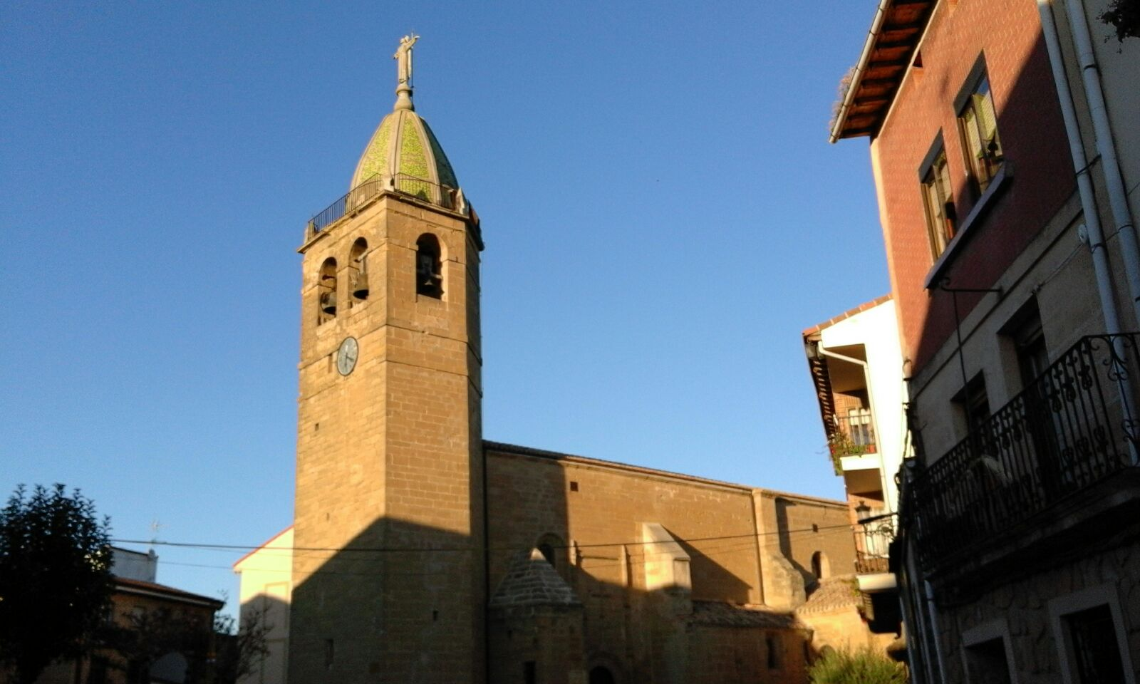 Asuncion Church in Rodezno